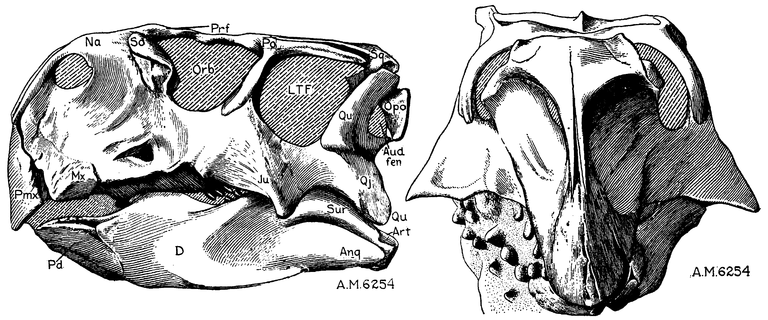 Lateral and anterior view of Psittacosaurus mongoliensis skull